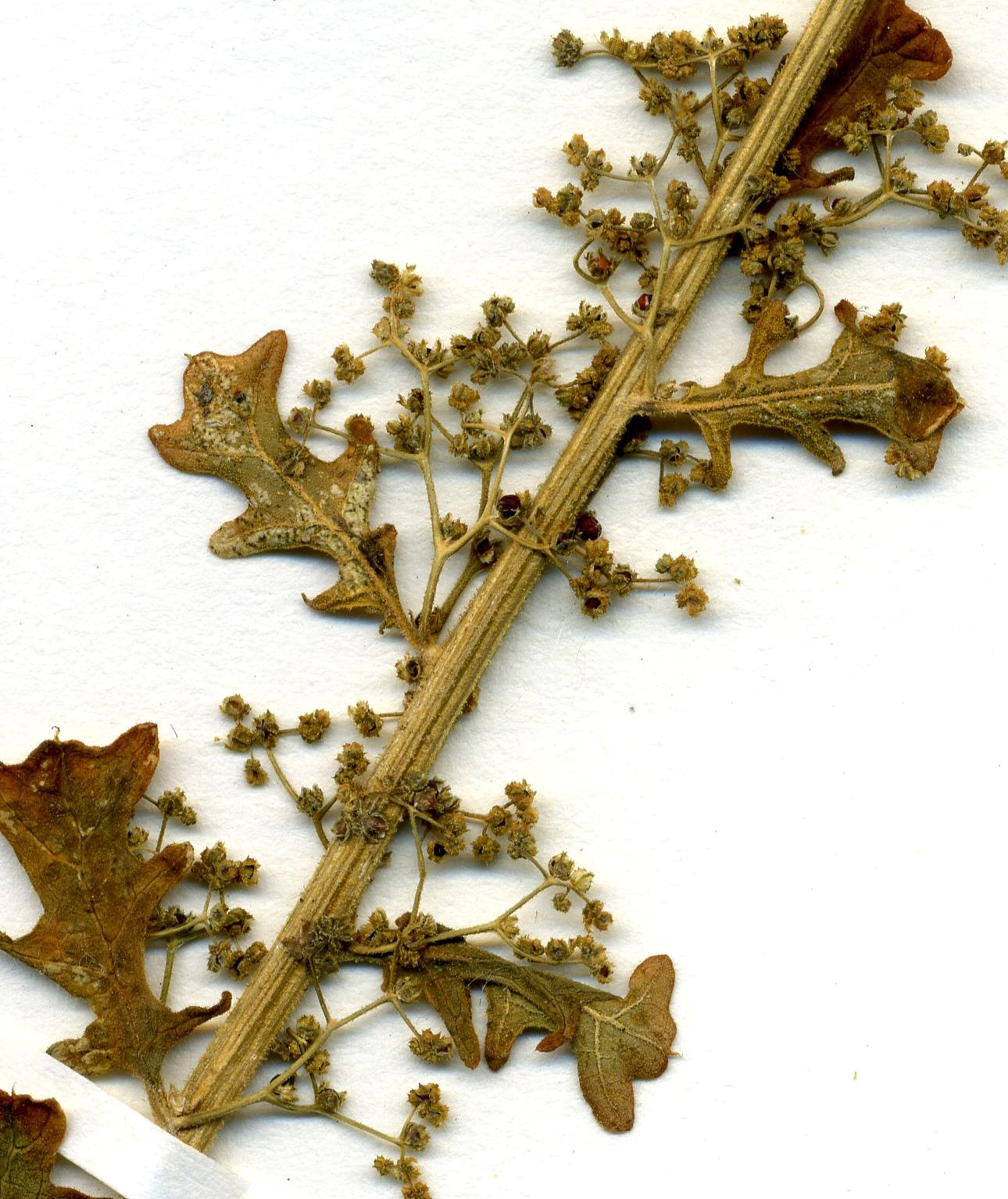 Dysphania schraderiana (Schult.) Mosyakin & Clemants (Syn. Chenopodium schraderianum Schult.), Herbarium sheet, close-up